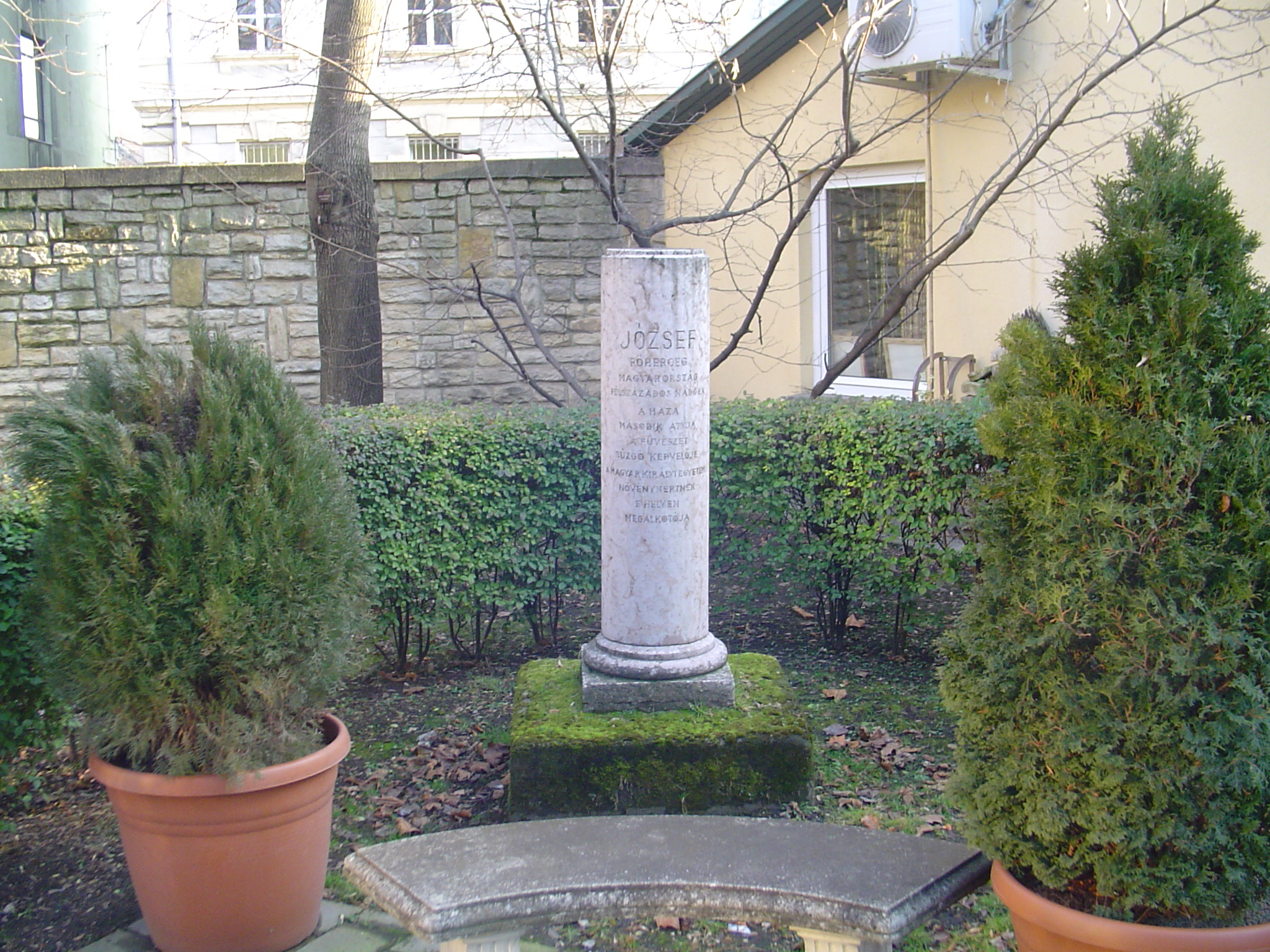 Memorial of Joseph Anton Johann, archduke of Austria from Füvészkert (Botanic garden of Budapest)